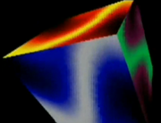 demo effect